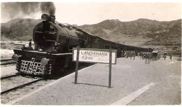 c. 1930-40s: Landi Khana Railway Station - Torkham Landi Khana was a railway station near the Pakistani town of Torkham, on the Pakistan-Afghanistan border. It was established on 23 April 1926 during British rule. The railway connecting the station to nearby Landi Kotal was closed on 15 December 1932 on Afghan government requests.